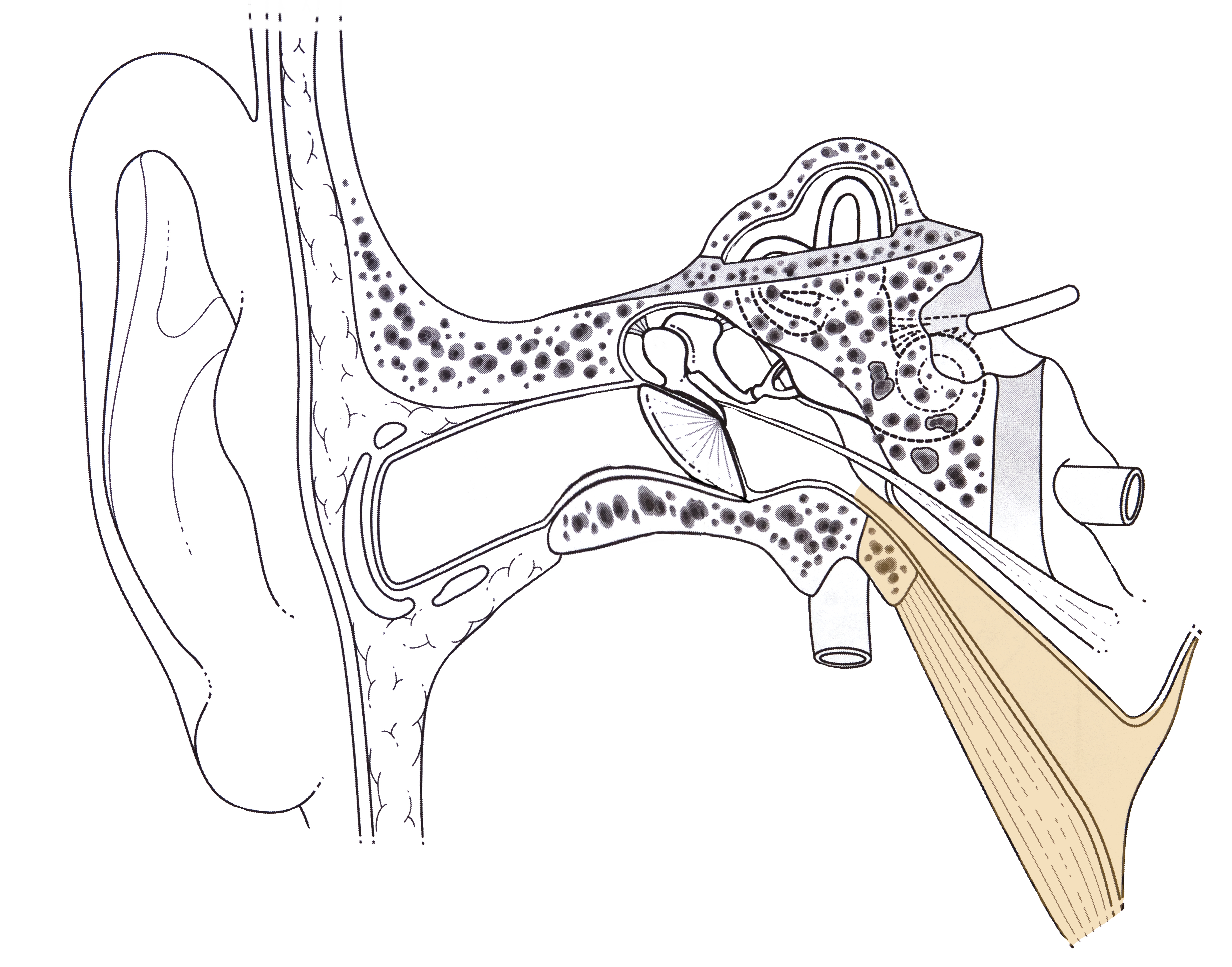 Eustachian tube — Schema